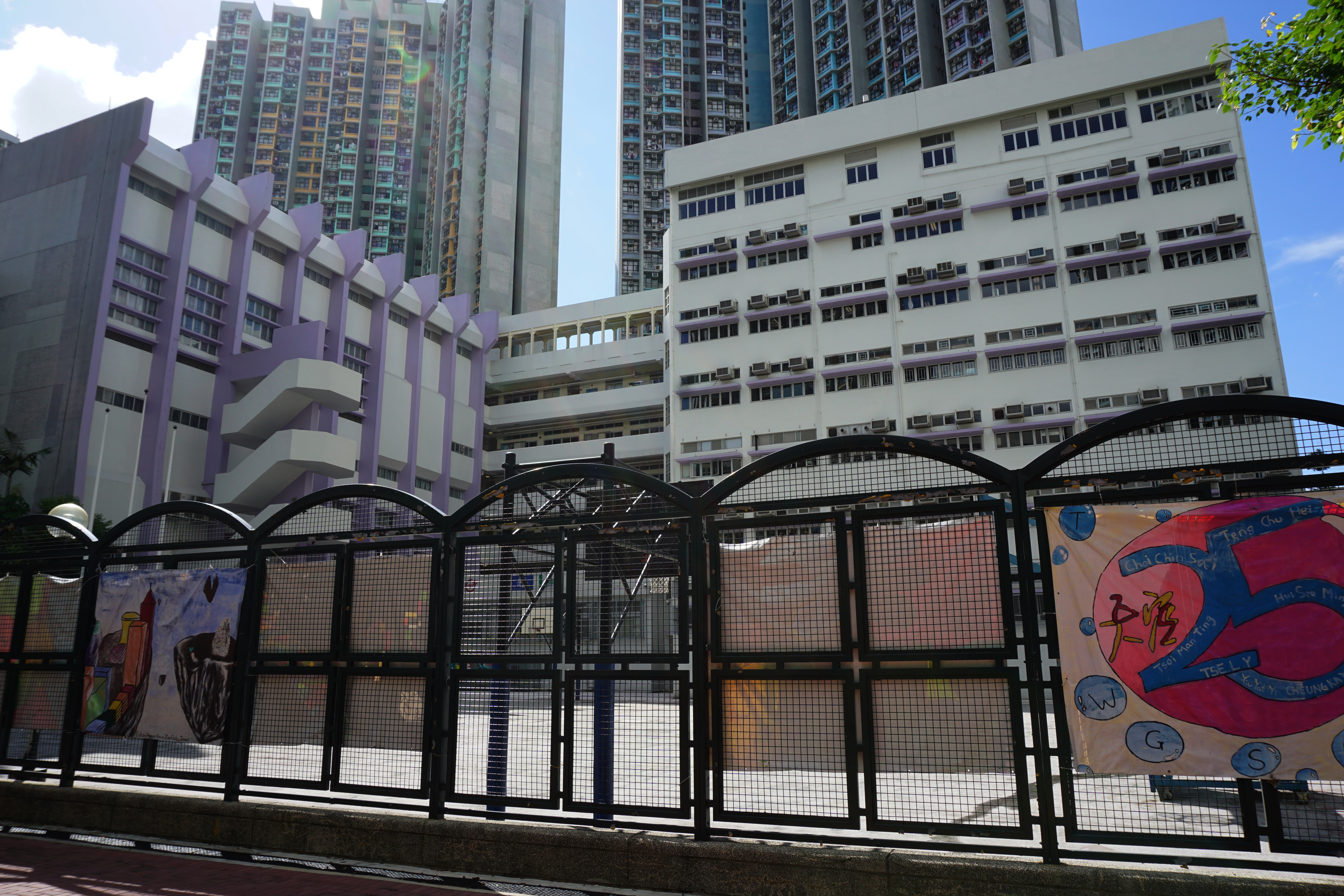 Government Secondary School in Tin Shui Wai, Hong Kong.